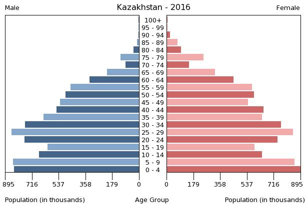 The population pyramid of Kazakhstan illustrates the age and sex structure of population and may provide insights about political and social stability, as well as economic development. The population is distributed along the horizontal axis, with males shown on the left and females on the right. The male and female populations are broken down into 5-year age groups represented as horizontal bars along the vertical axis, with the youngest age groups at the bottom and the oldest at the top. The shape of the population pyramid gradually evolves over time based on fertility, mortality, and international migration trends.